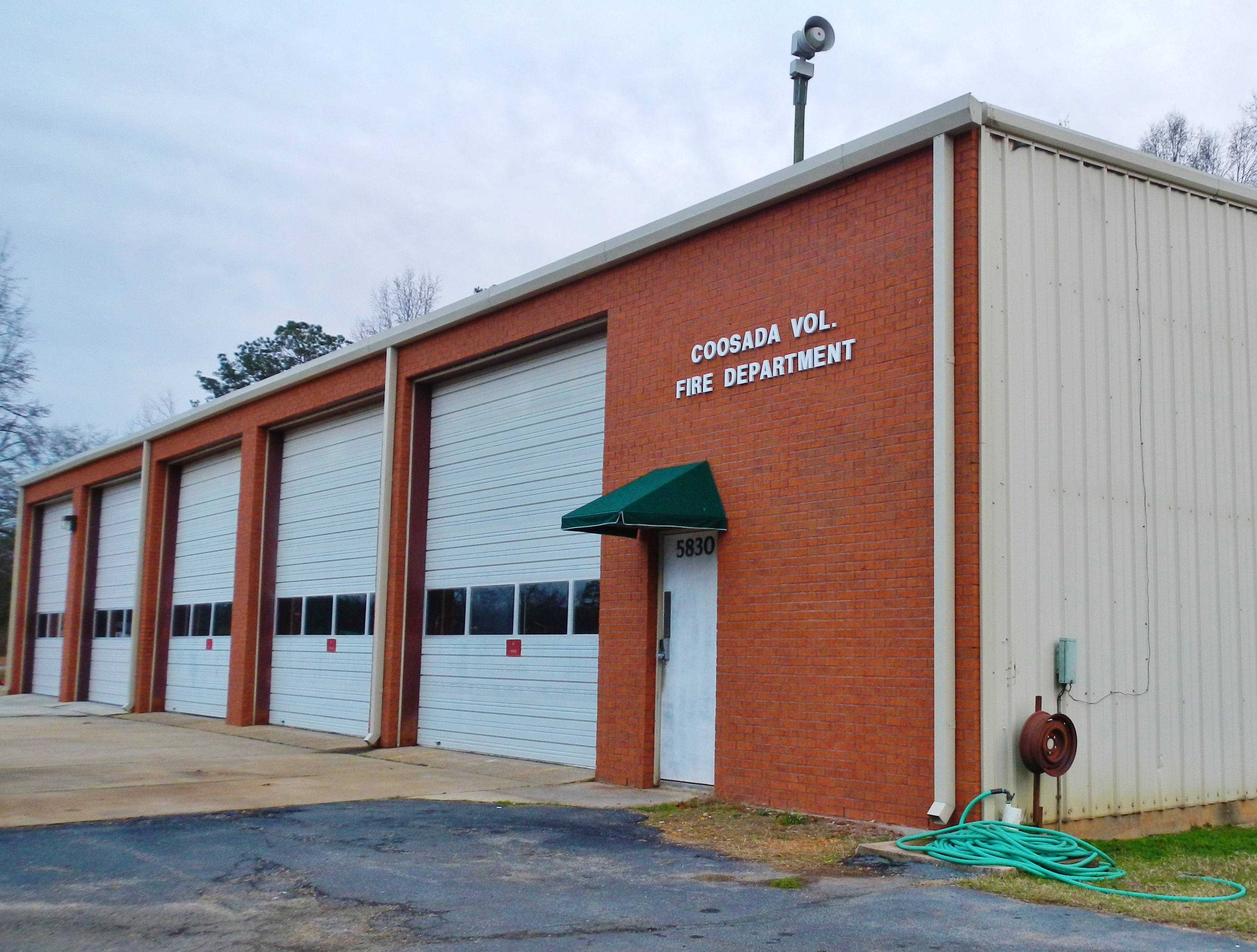 This is a photograph of the Coosada Volunteer Fire Department in Coosada, Alabama.